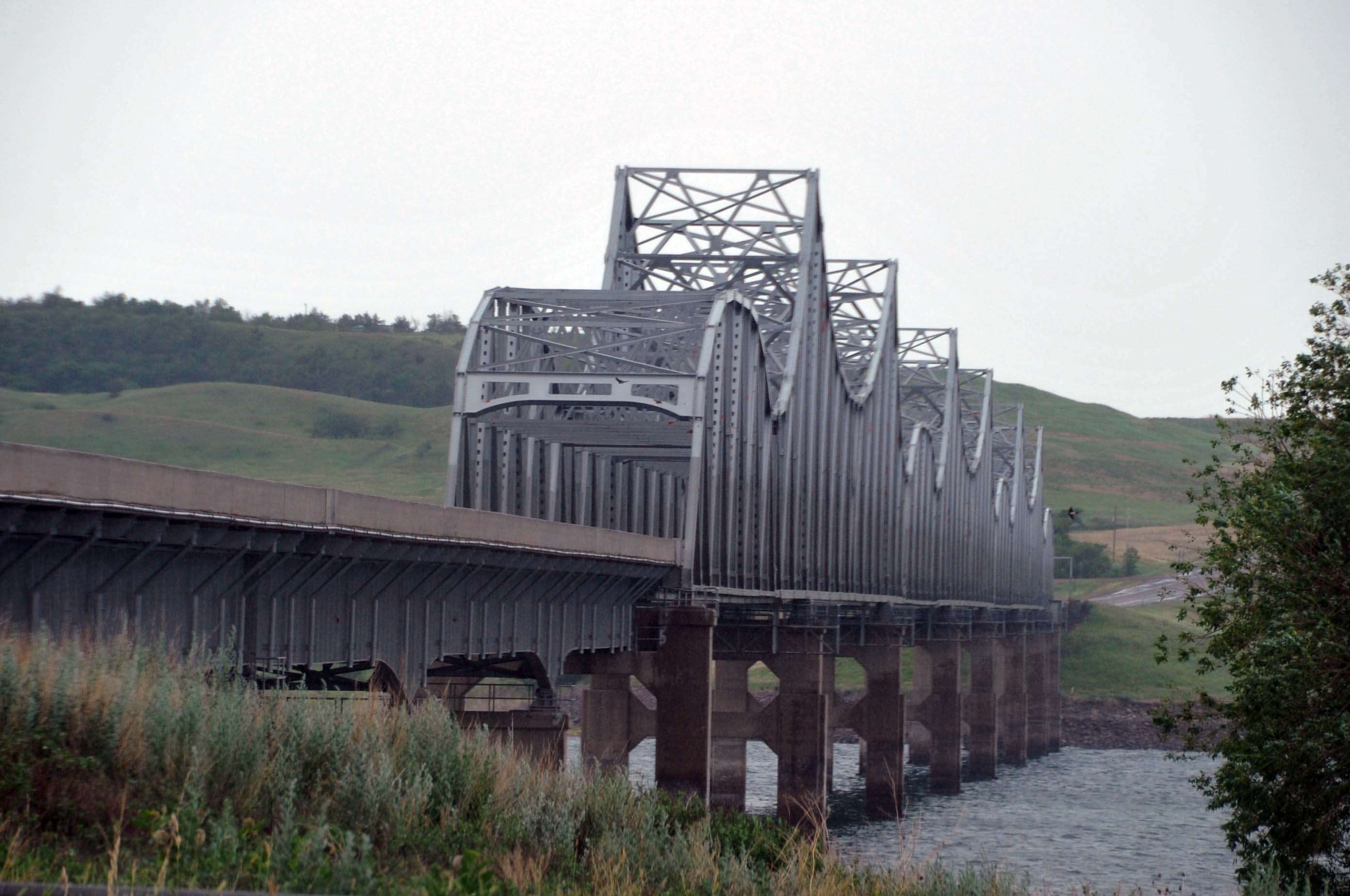 BUILT IN 1928; CANTILEVERED WARREN THROUGH TRUSS